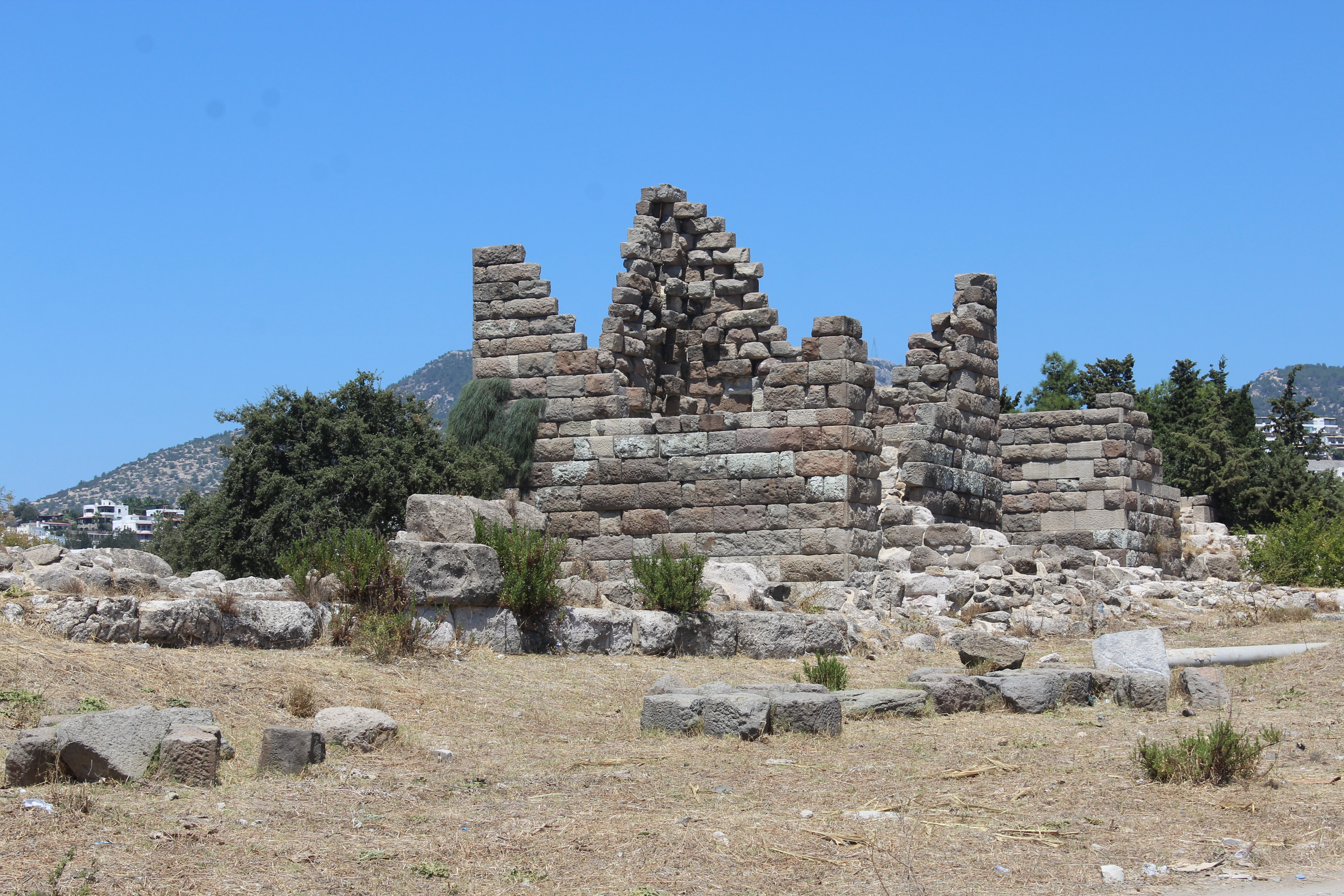 Myndos Gate. Ruins of the fortifications around the city; 4th c. BC; Bodrum, Turkey